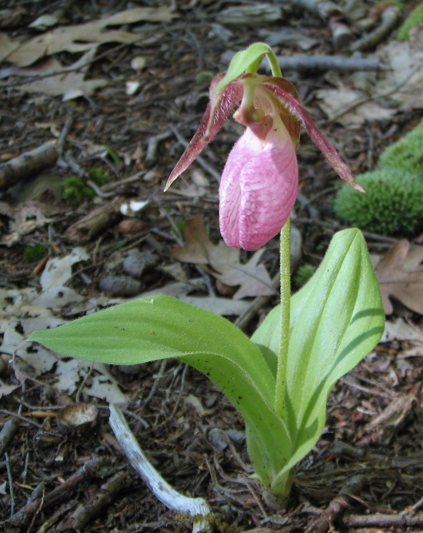 A Pink Lady's Slipper (Cypripedium acaule) from Penwood State Park in central Connecticut